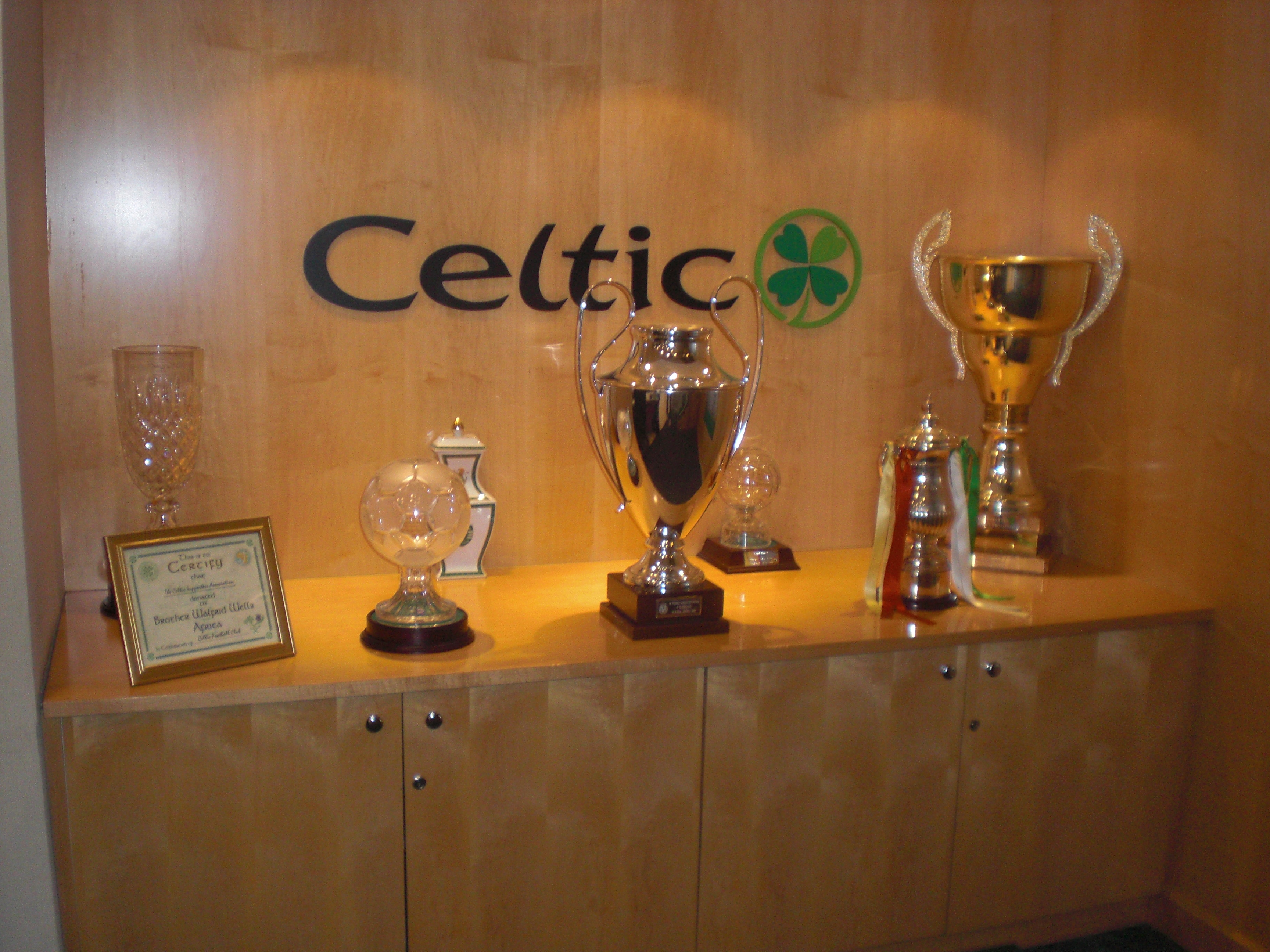 Trophy's won by Celtic FC. They are sited in the reception of Parkhead Stadium.